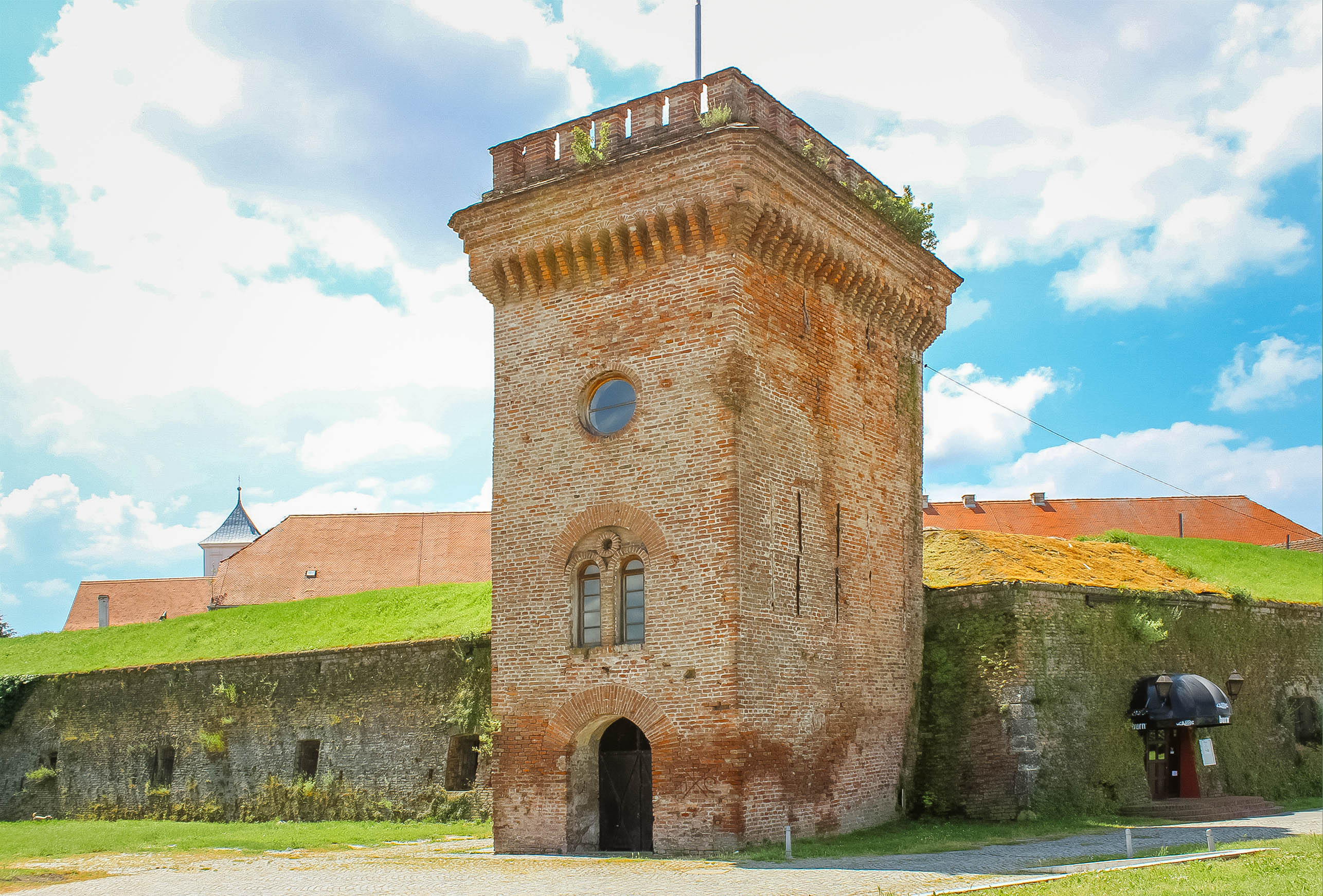 Bastion Osijek